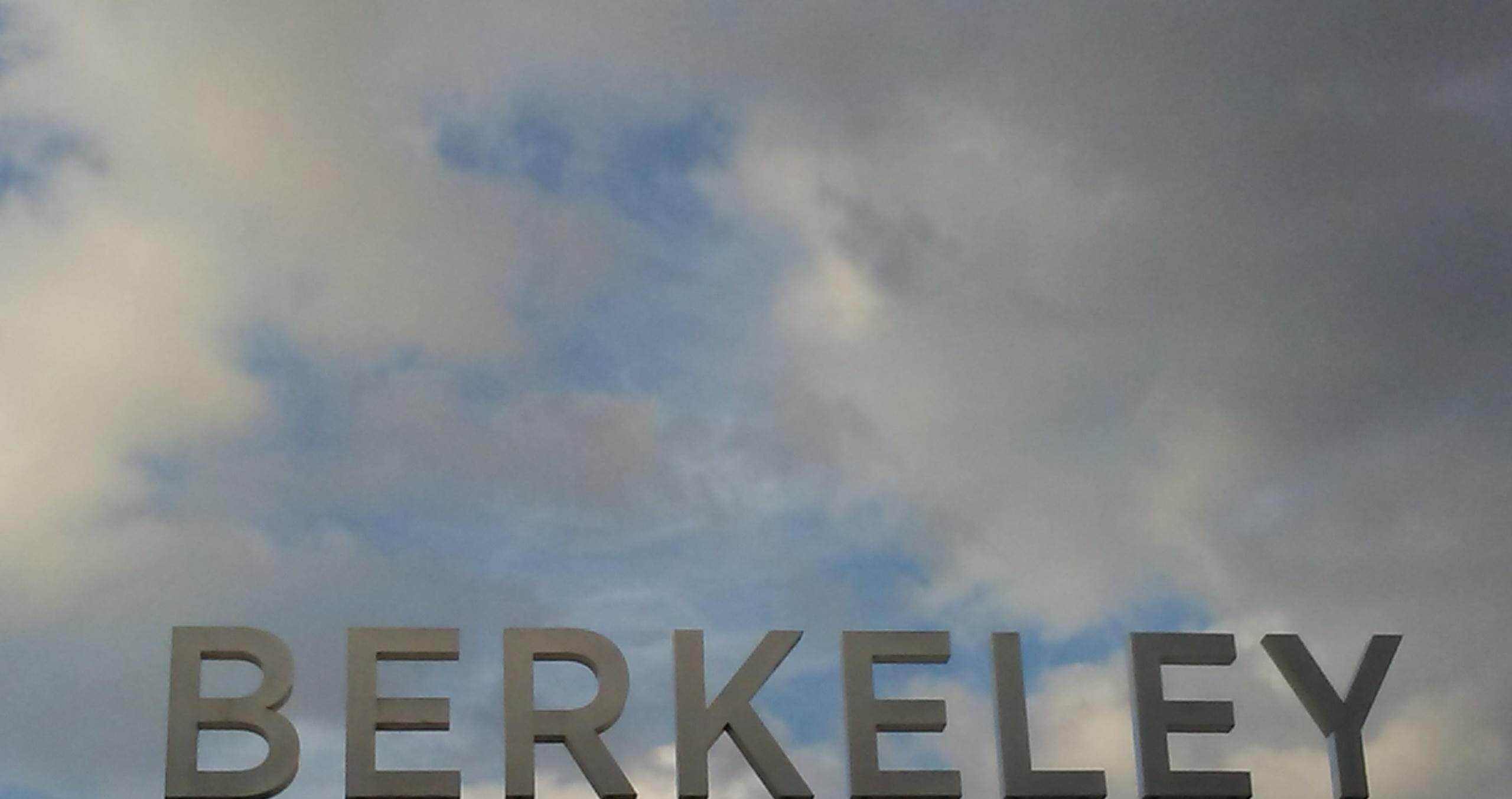 A detail of signage for the Berkeley Art Museum, taken in 2019 by Steven Saylor